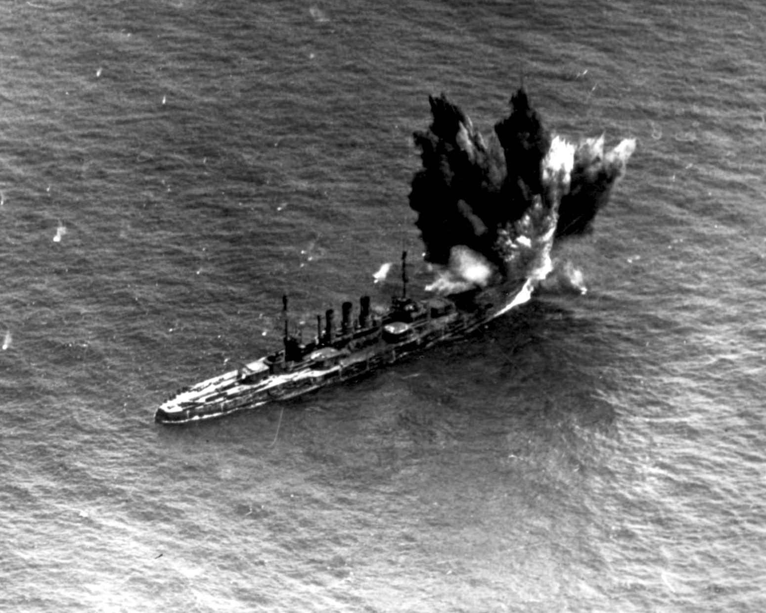 Used as a target ship for bombing attacks near Cape Henry, Virginia (USA), the former German battleship Ostfriesland was sunk by bombs on 21 July 1921. Brig. Gen. Billy Mitchell, an outspoken supporter of air power, waged a war throughout his career against his superiors who believed that the airplane was better suited for observation. As head of aviation in the Army Signal Corps during World War I, Mitchell felt otherwise - he knew the power of aviation for the military. Finally, in 1921, he persuaded the Army and the Navy to allow him to demonstrate the capabilities of the airplane by attempting to sink captured German warships.